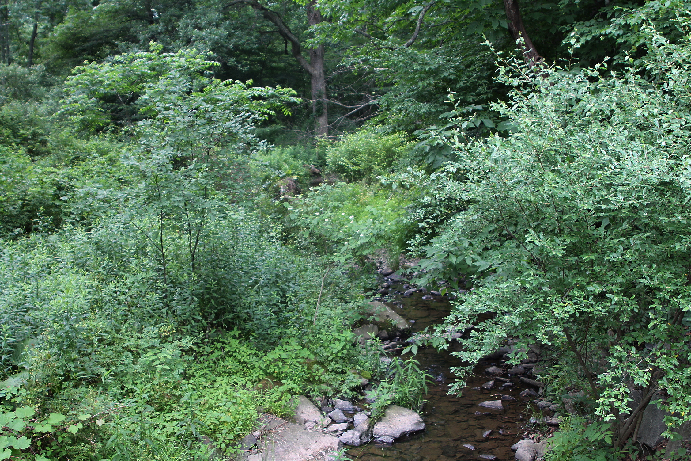 Kingsbury Brook, a minor tributary of Huntington Creek looking upstream.